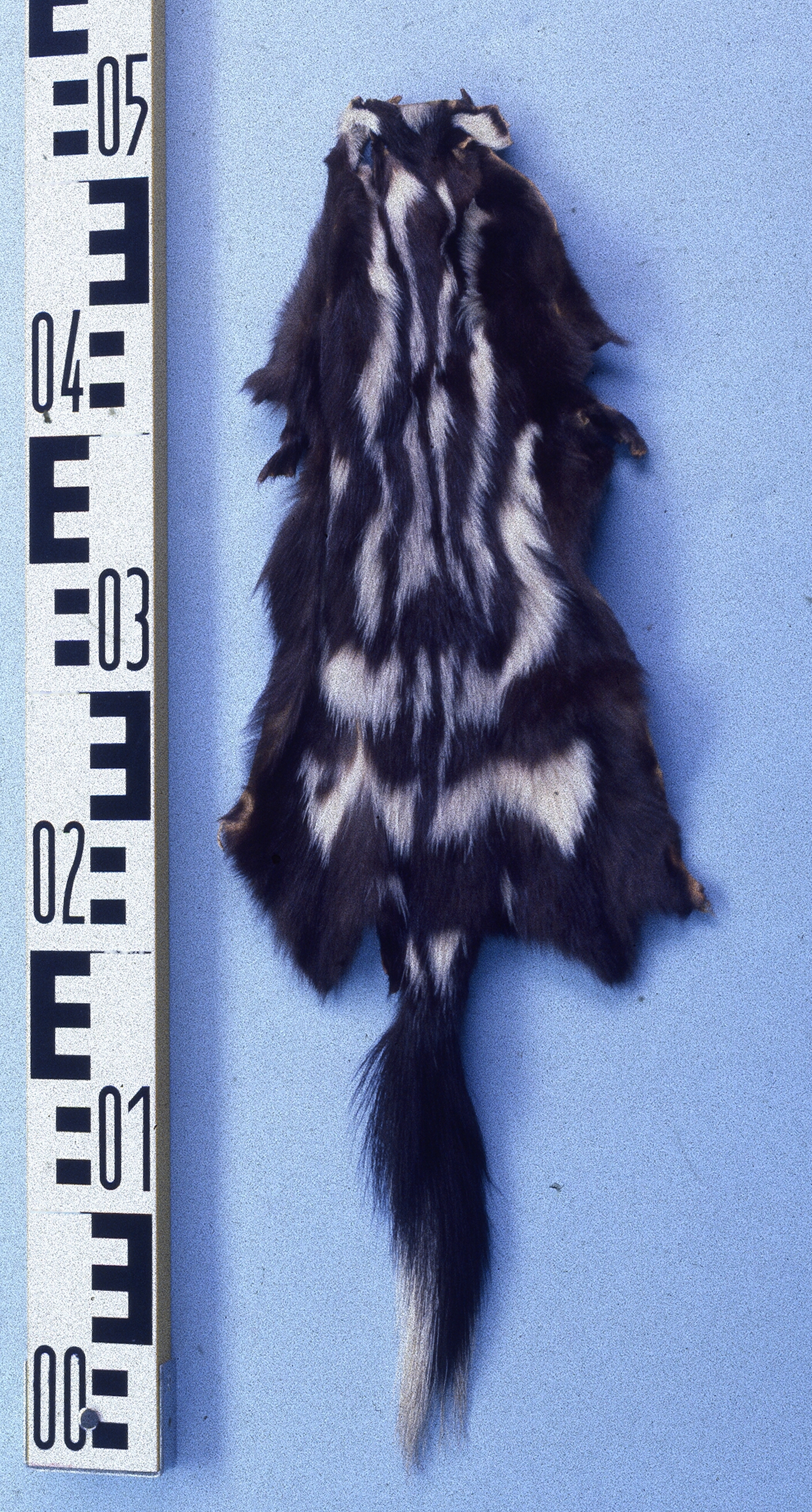 Spotted skunk fur skin(Spilogale putorius). Fur skin collection, Bundes-Pelzfachschule, Frankfurt/Main, Germany